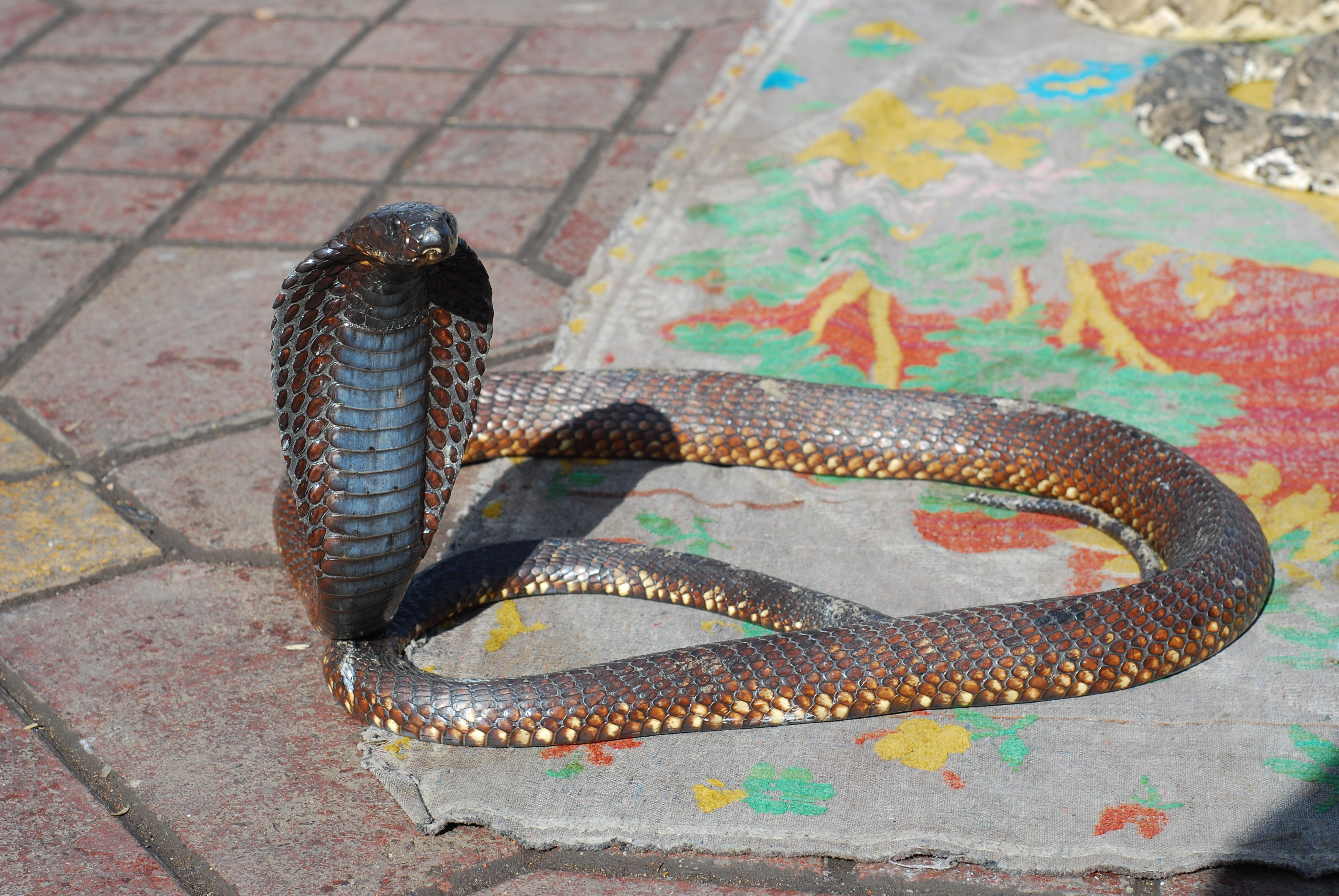 An Egyptian cobra subspecies, the Moroccan cobra (Naja haje legionis).